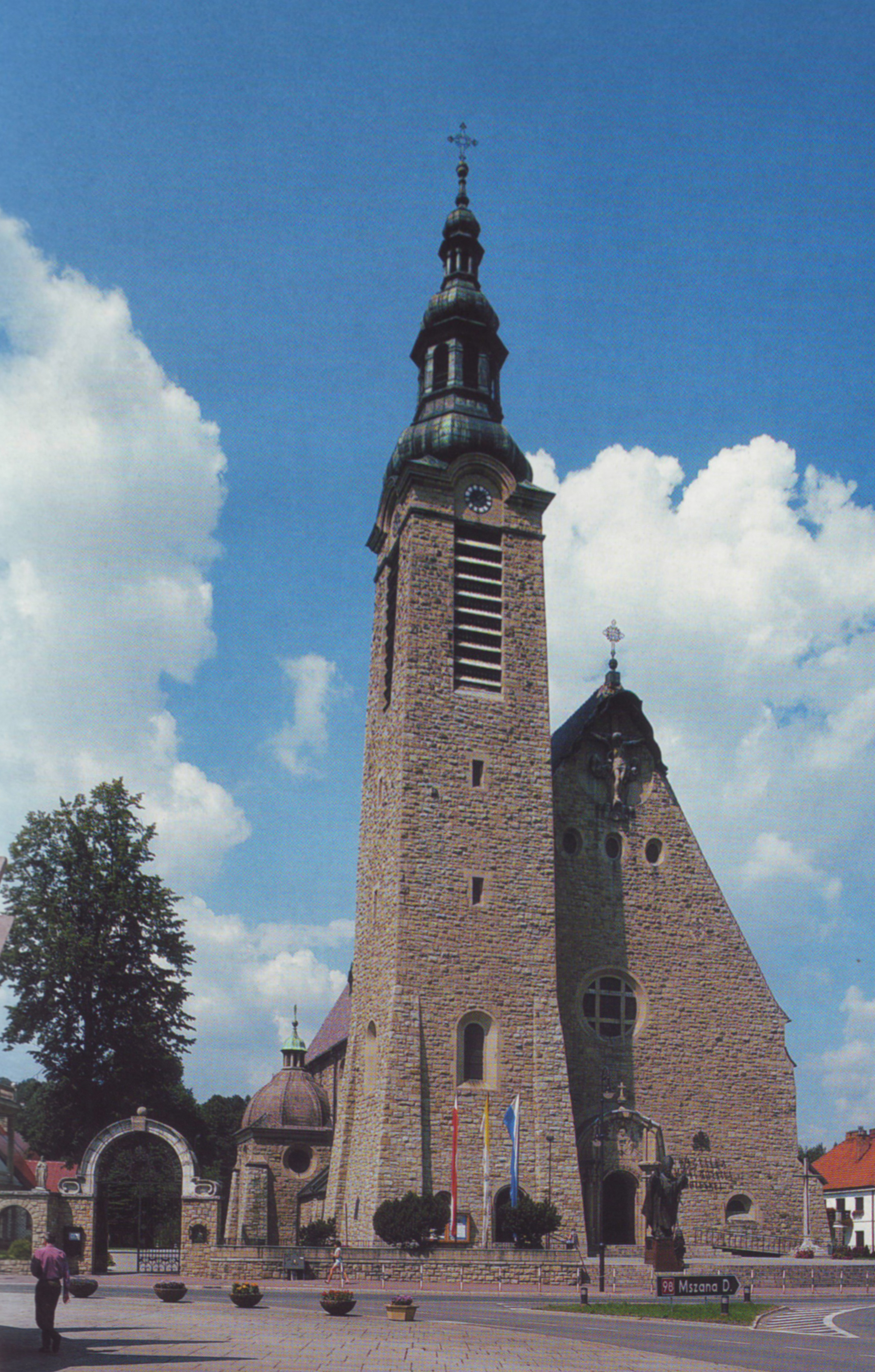 Basilica of Our Lady of Sorrows in Limanowa (Poland)